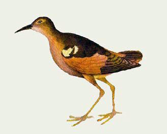 Ff. 120. Watercolour painting by William Ellis annotated 'Tringa pyrrhetraea' and made during Captain James Cook's second voyage to explore the southern continent (1772-75).